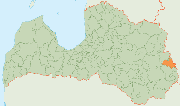 Map of Cibla